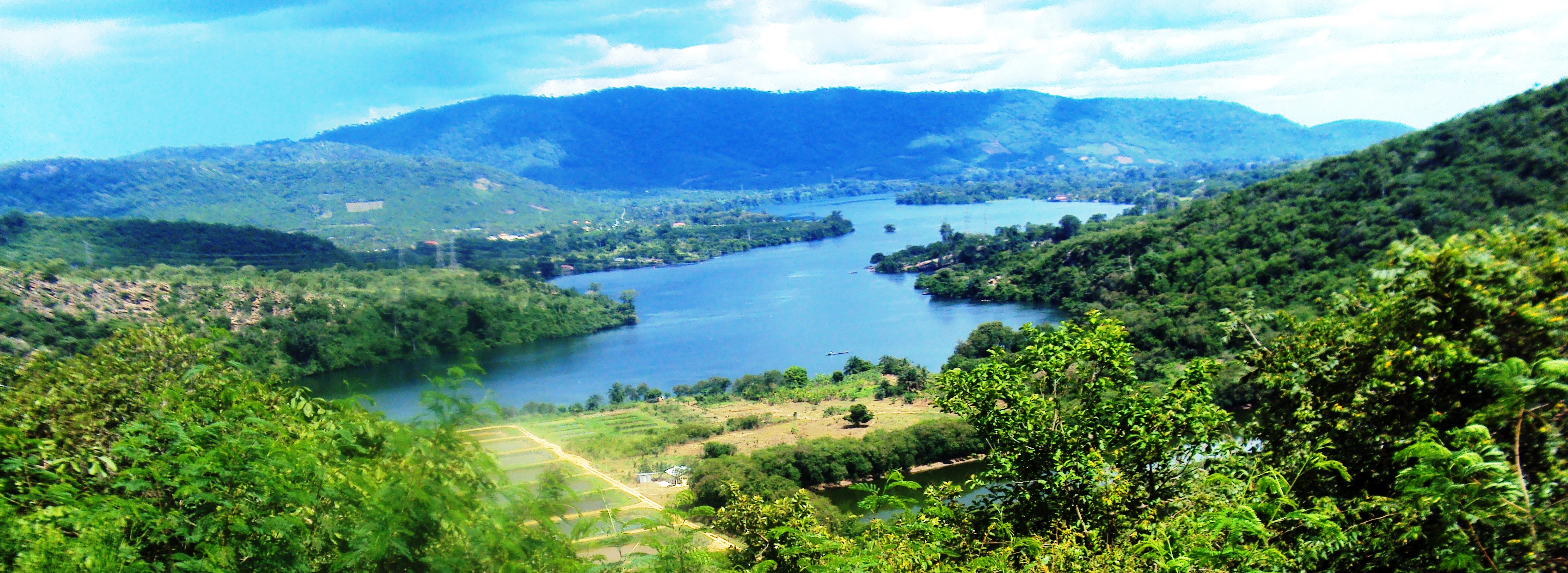 Volta lake from the Santa Barbara Church- Akosombo